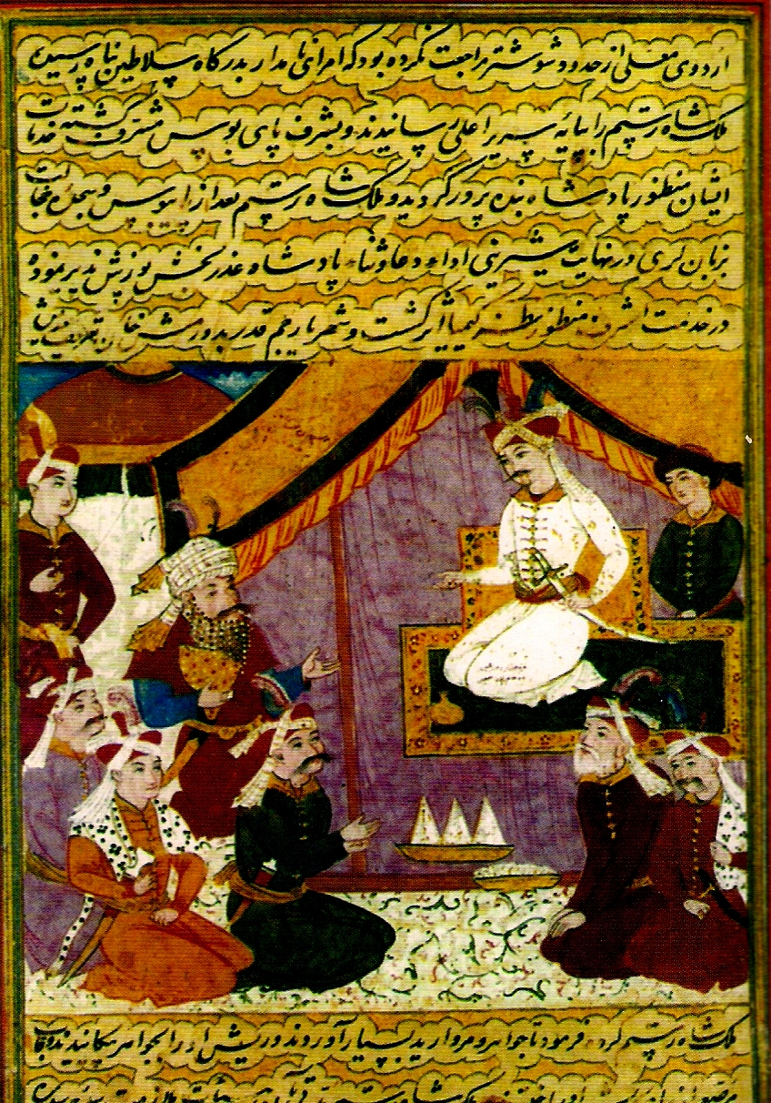 Artwork of Shah Ismail II.